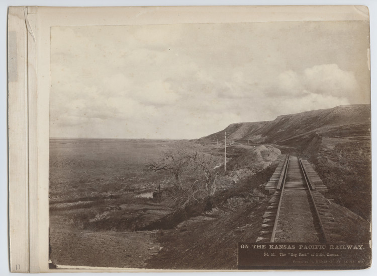 Title: No. 51. The Hog Back at Ellis, Kansas. Creator: Benecke, Robert, 1835-1903 Date: 1873 Place: Yocemento, Kansas, about halfway between the cities of Hays and Ellis Notes: This bluff is the distant bluff seen in Alexander Garner's On the Great Plains, Kansas, 294 miles west of Missouri River. Three sportsmen are seen fishing in Big Creek at lower left. Part Of: //digitalcollections.smu.edu/cdm/search/collection/wes/searchterm/Vault Ag1982.0086/mode/exact/ Physical Description: 1 photographic print: albumen; 19.25 x 25 cm. on 20 x 27.5 cm. mount File: vault_ag1982_0086_51_opt.jpg Rights: Please cite DeGolyer Library, Southern Methodist University when using this file. A high-resolution version of this file may be obtained for a fee. For details see the web page. For other information, For more information, View U.S. West: Photographs, Manuscripts, and Imprints